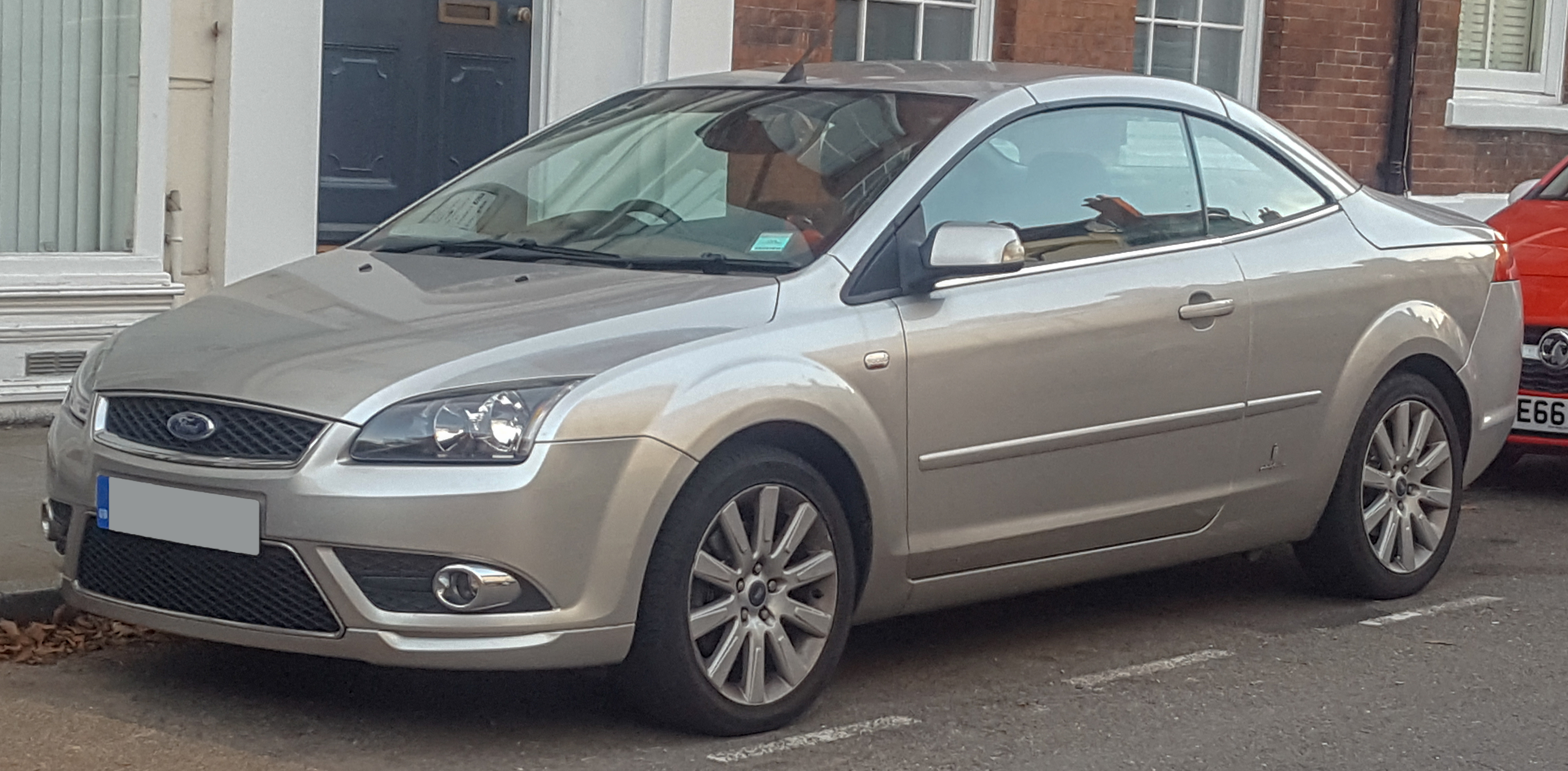 2008 Ford Focus CC-3 2.0 Front Taken in Warwick